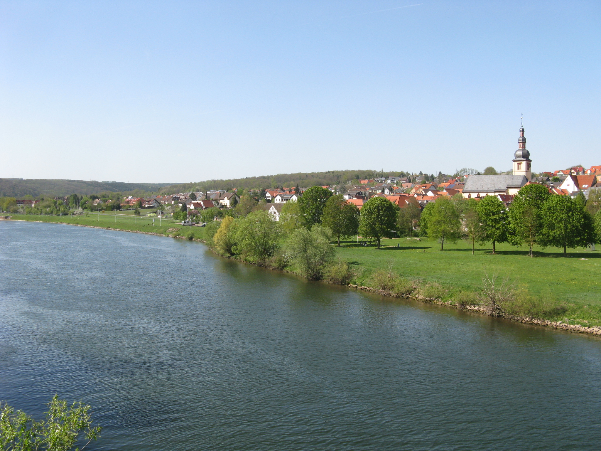 Lengfurt (Main), Unterfranken (Germany)